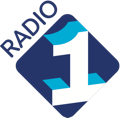 Logo of Radio 1 (Netherlands)